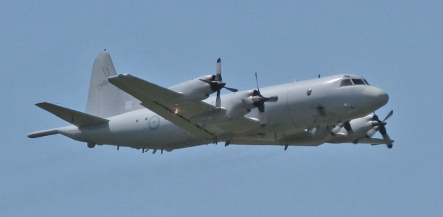 An AP-3C Orion at the 2008 Amberly AFB Airshow, QLD Australia.